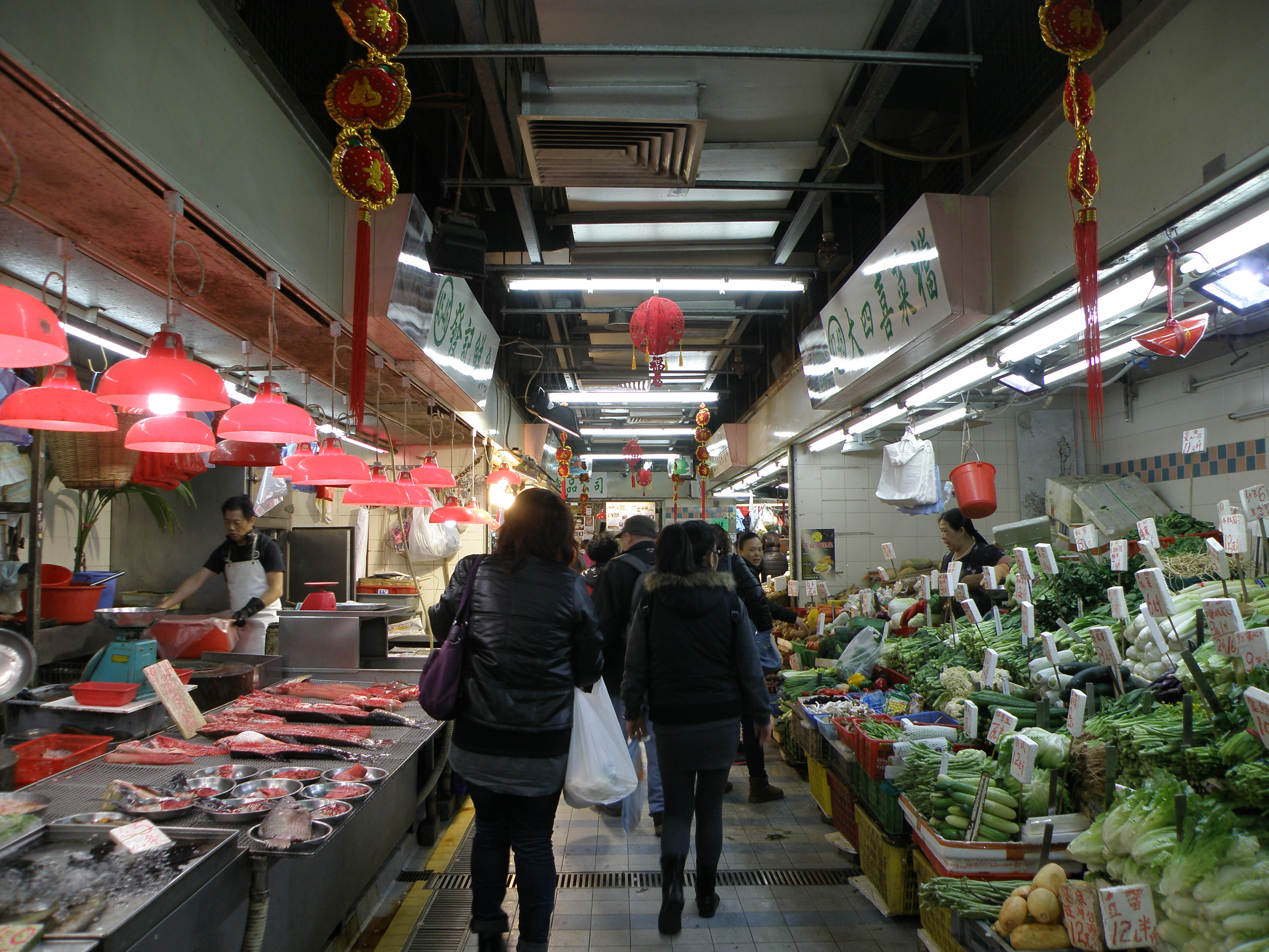 Po Tin Market in Tuen Mun, Hong Kong.